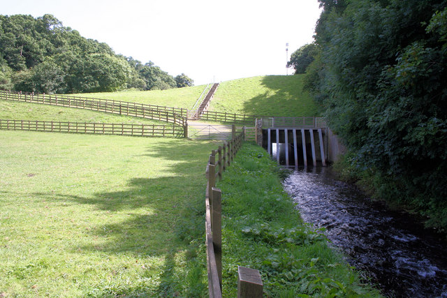 Holbeam Dam Viewed from upstream the picture shows the River Lemon flowing through this flood prevention dam. At times of extreme rainfall the sluice is closed to restrict the flow of the river.